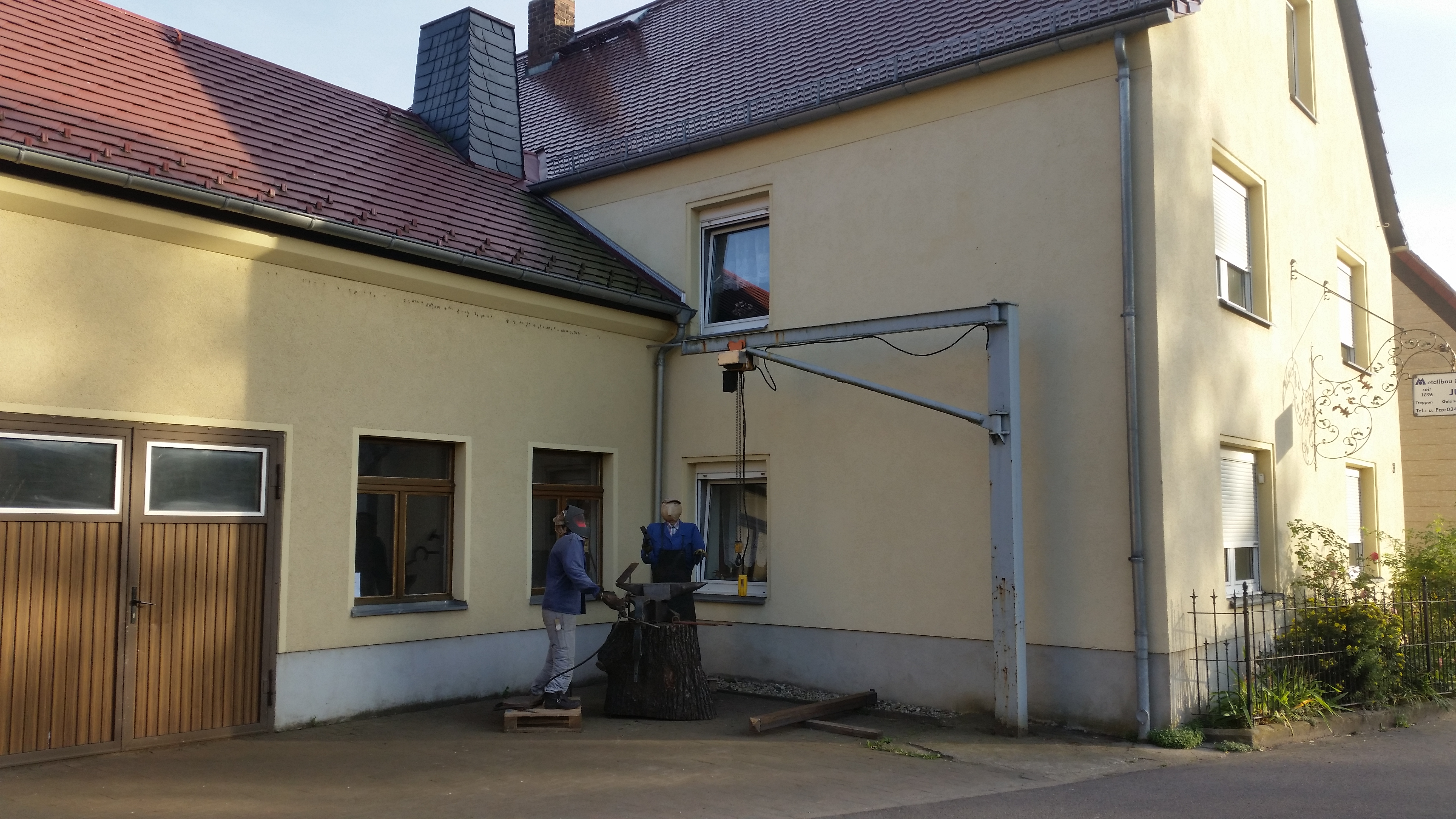 Benndorf Wrought